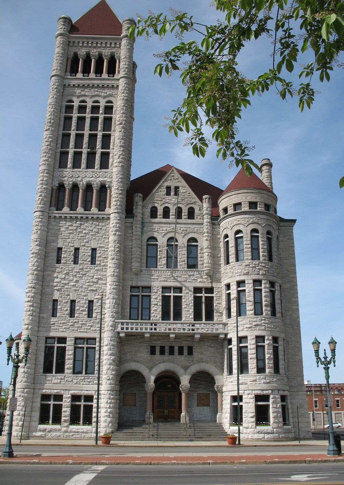 Picture I took of the Syracuse City Hall while walking through Syracuse.